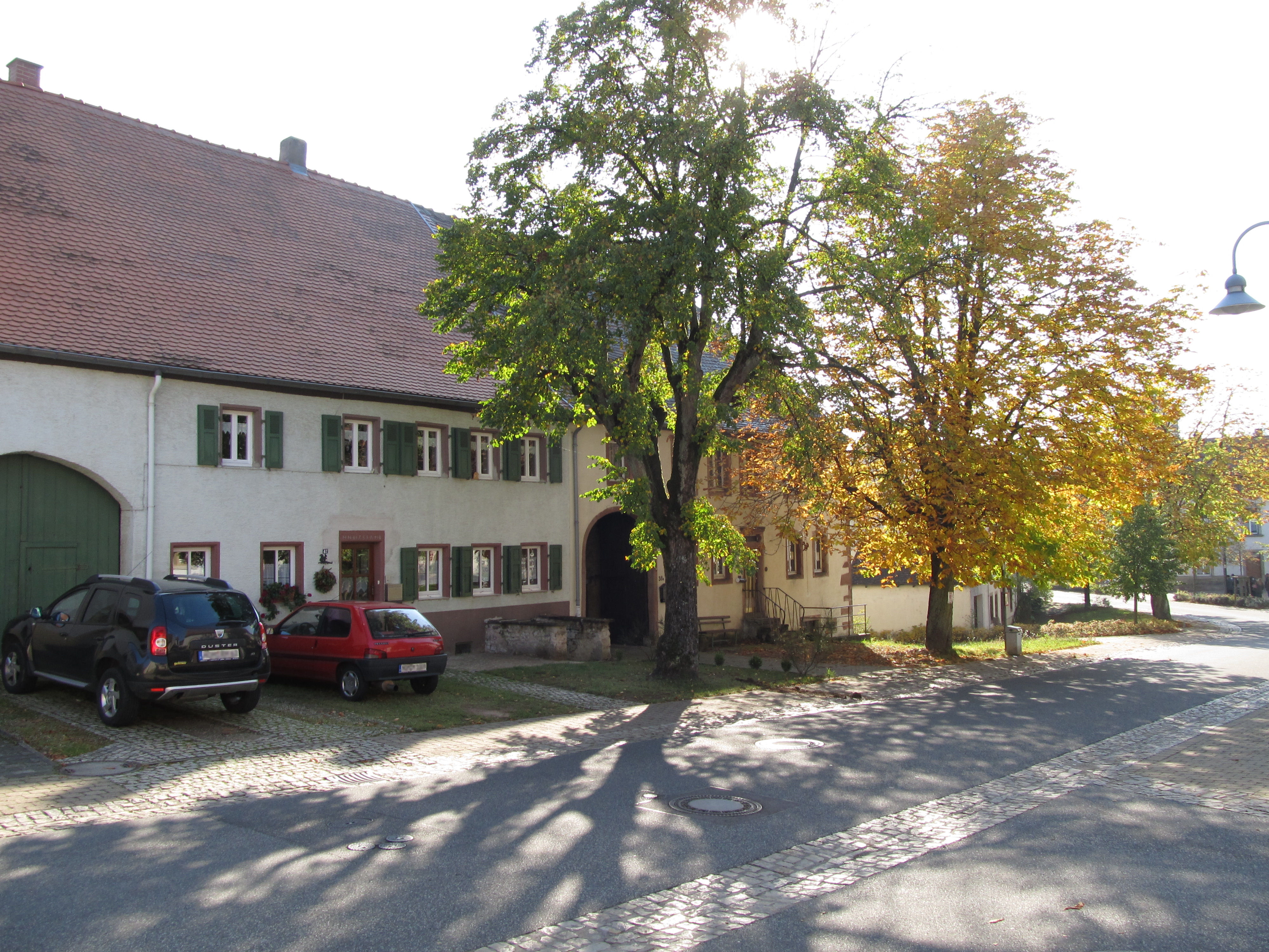 Farm houses in Wolfersheim